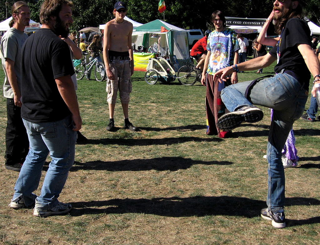 Some people playing Hacky Sack at the 2007 Hempstalk festival in Portland, Oregon